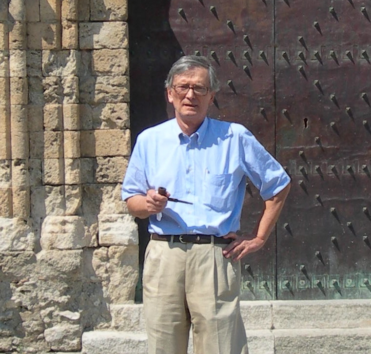 Gabriele Lolli